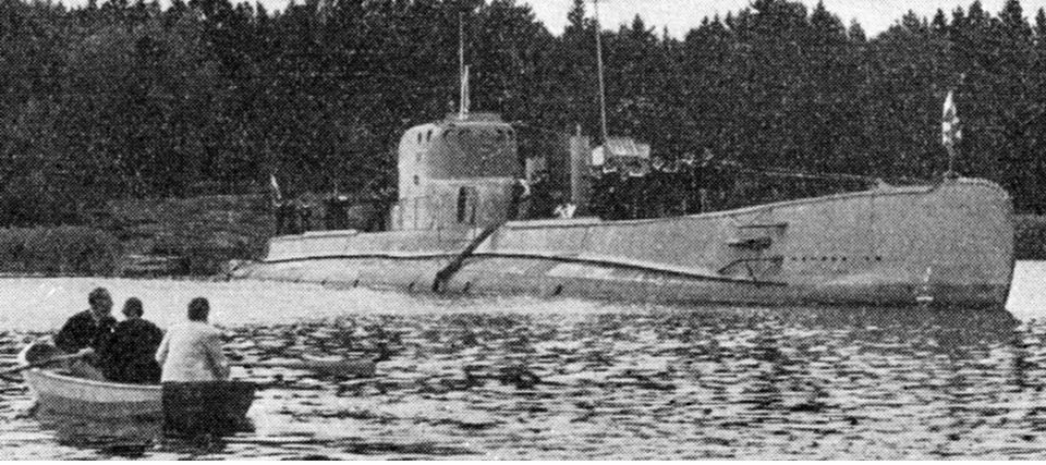 Polish submarine Sęp arrives in Sweden för internment september 1939.